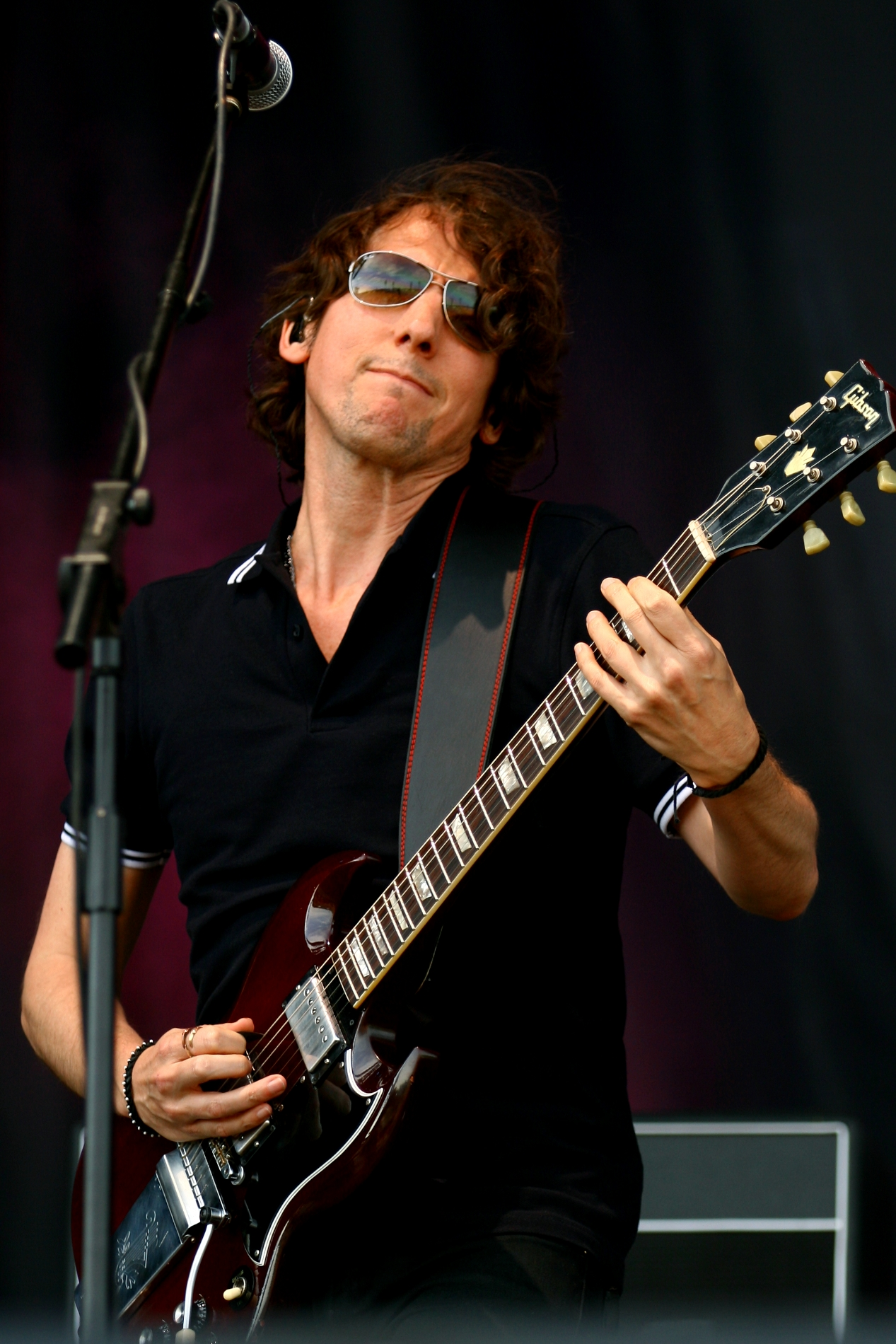 Tim Carter, tour guitarist of Kasabian, on the Centerstage of Rock im Park Festival 2014. Festivalsommer This photo was created with the support of donations to Wikimedia Deutschland in the context of the CPB project "Festival Summer".